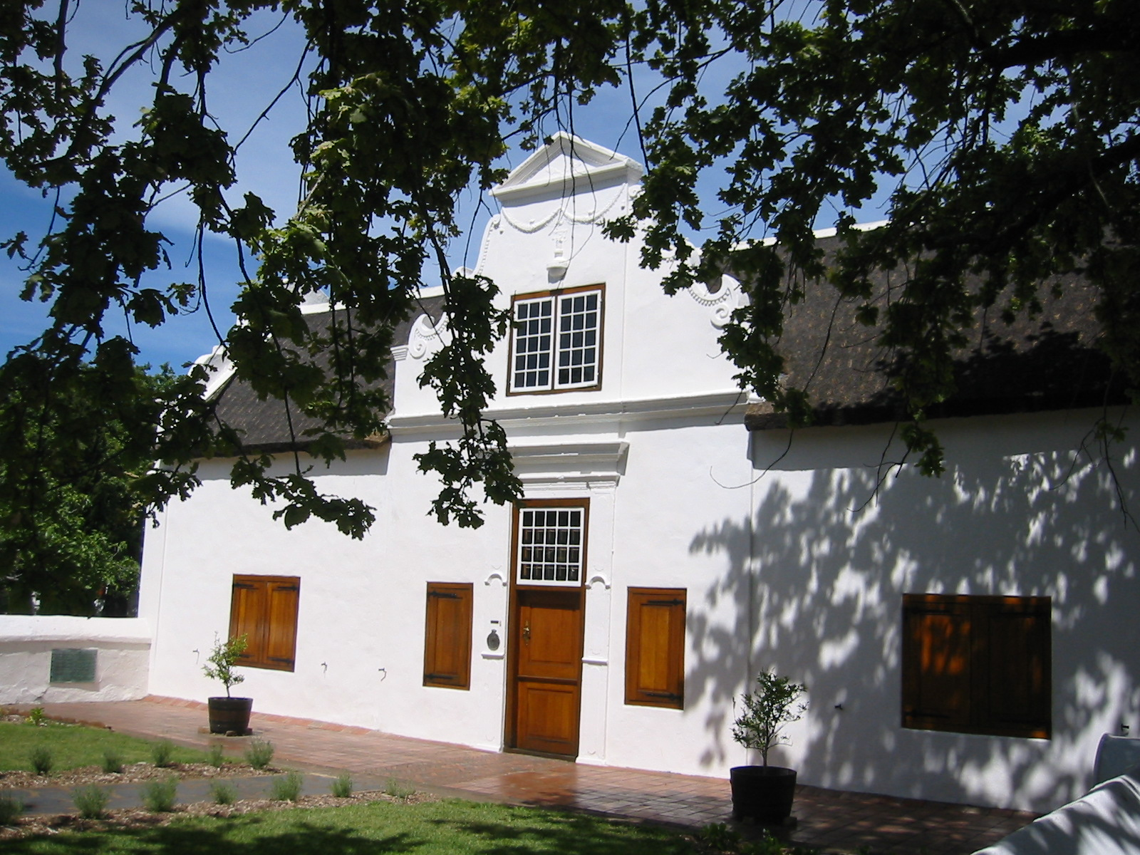 Burgher House (Fick House), 40 Blom Street, Stellenbosch This media shows a South African Protected Site with SAHRA file reference 9/2/084/0066.